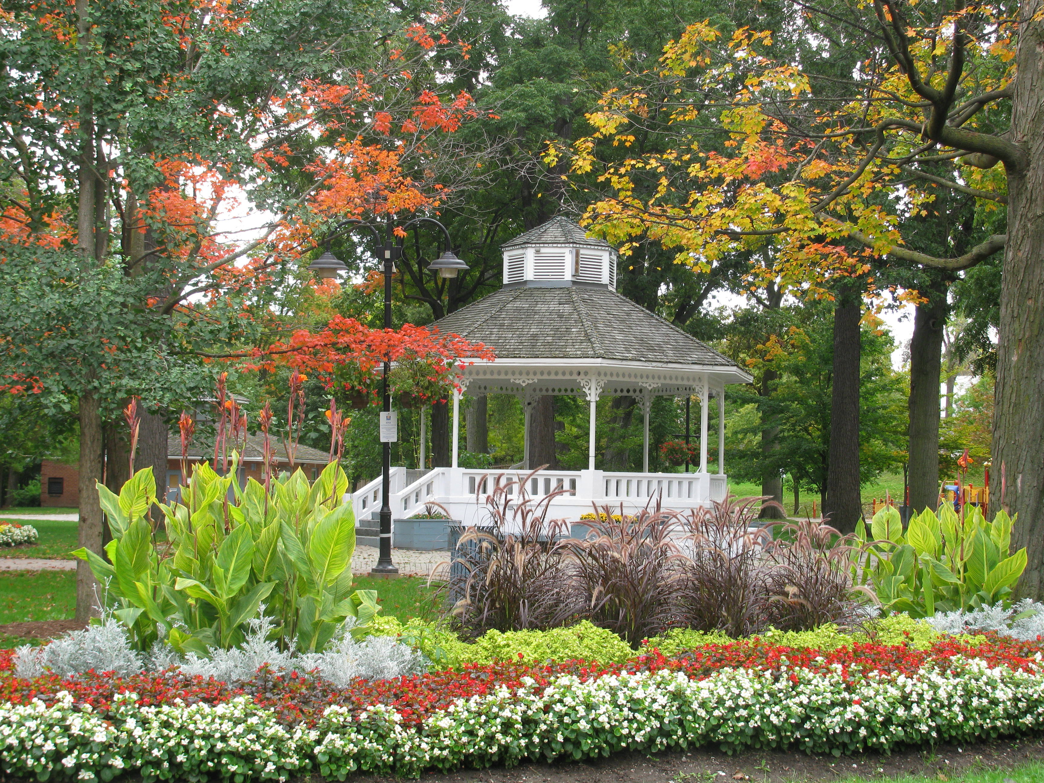 Fall Colours in Gage Park